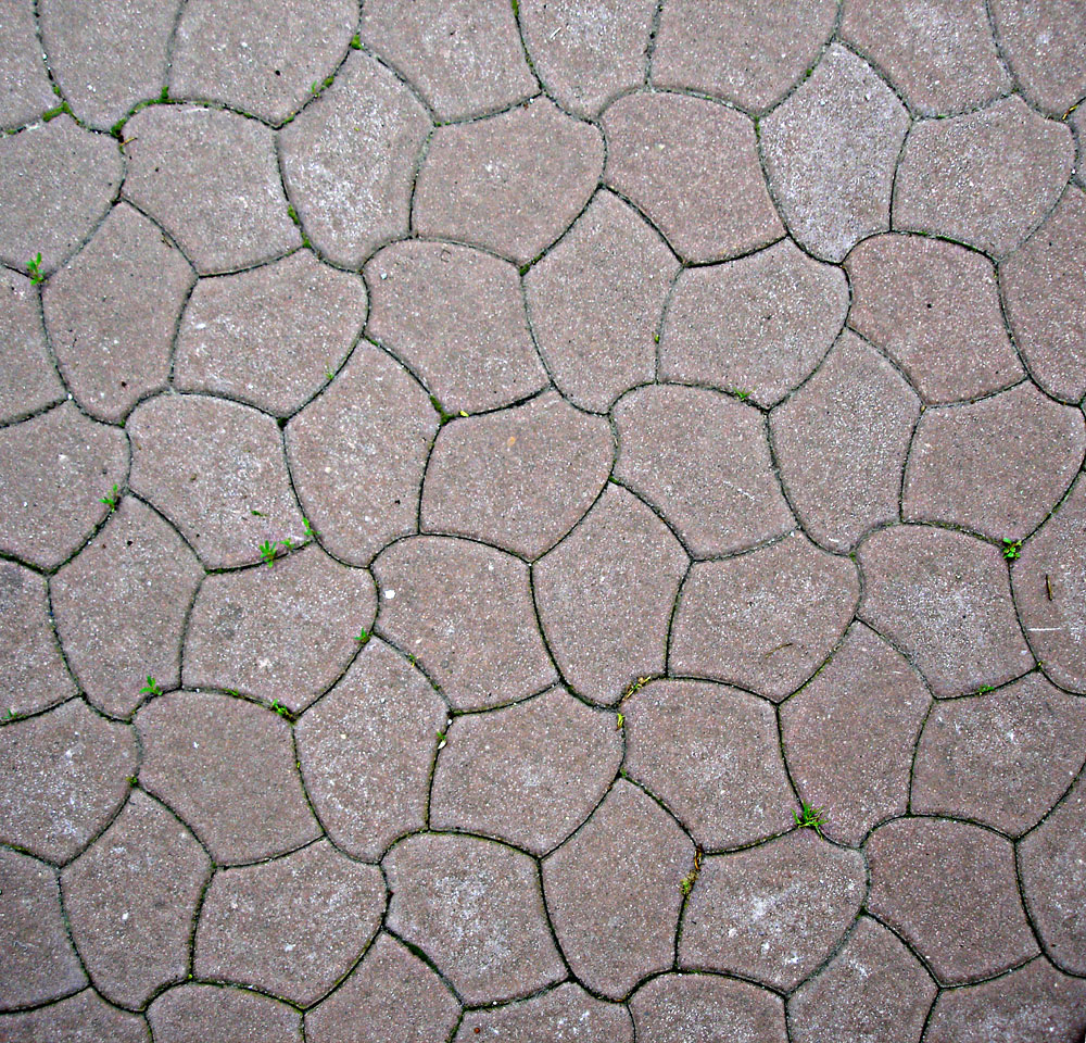 Example of wallpaper group type p3. Computer-enhanced photograph of a street pavement in Zakopane, Poland.